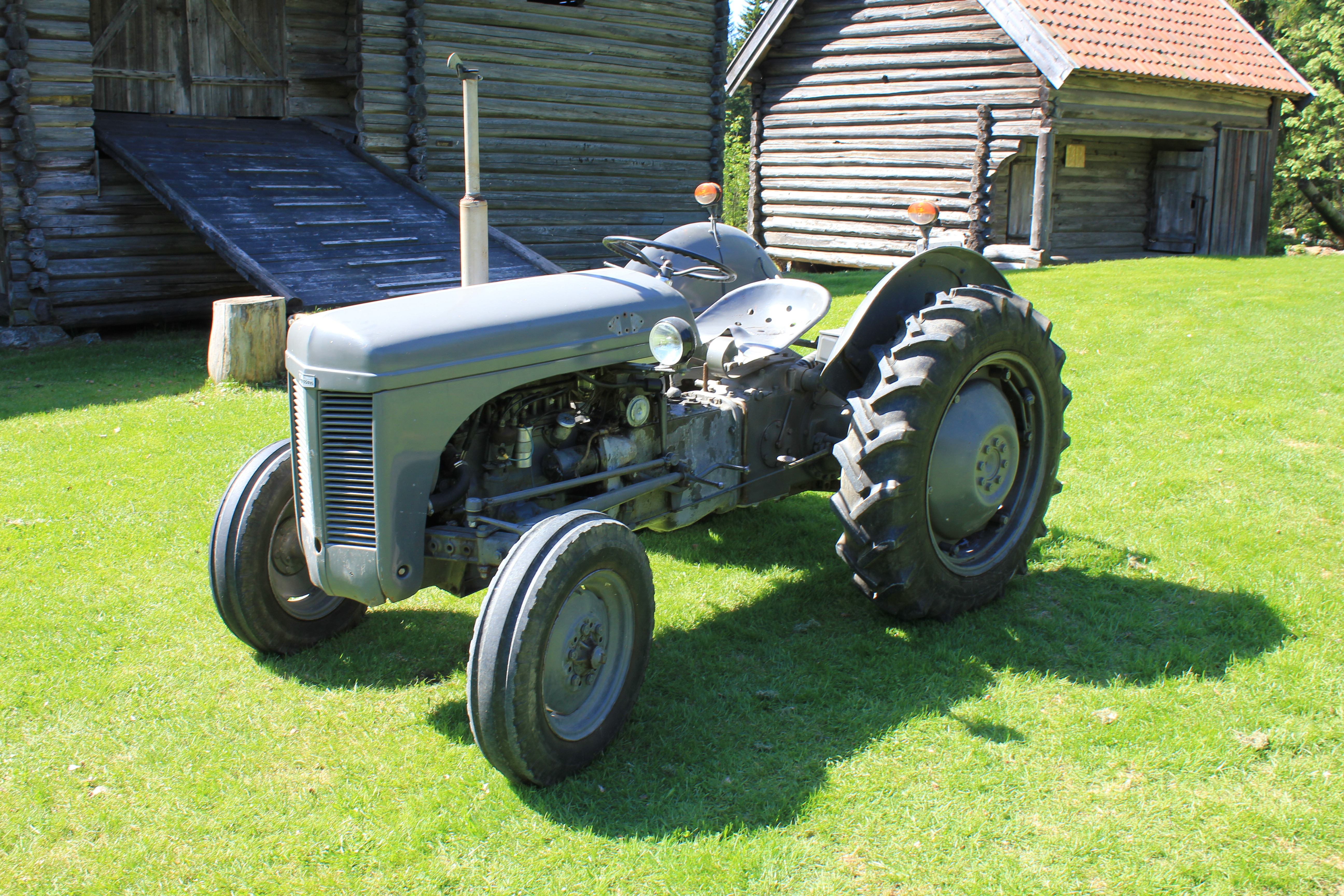 Old grey Massey Ferguson tractor, Norway.